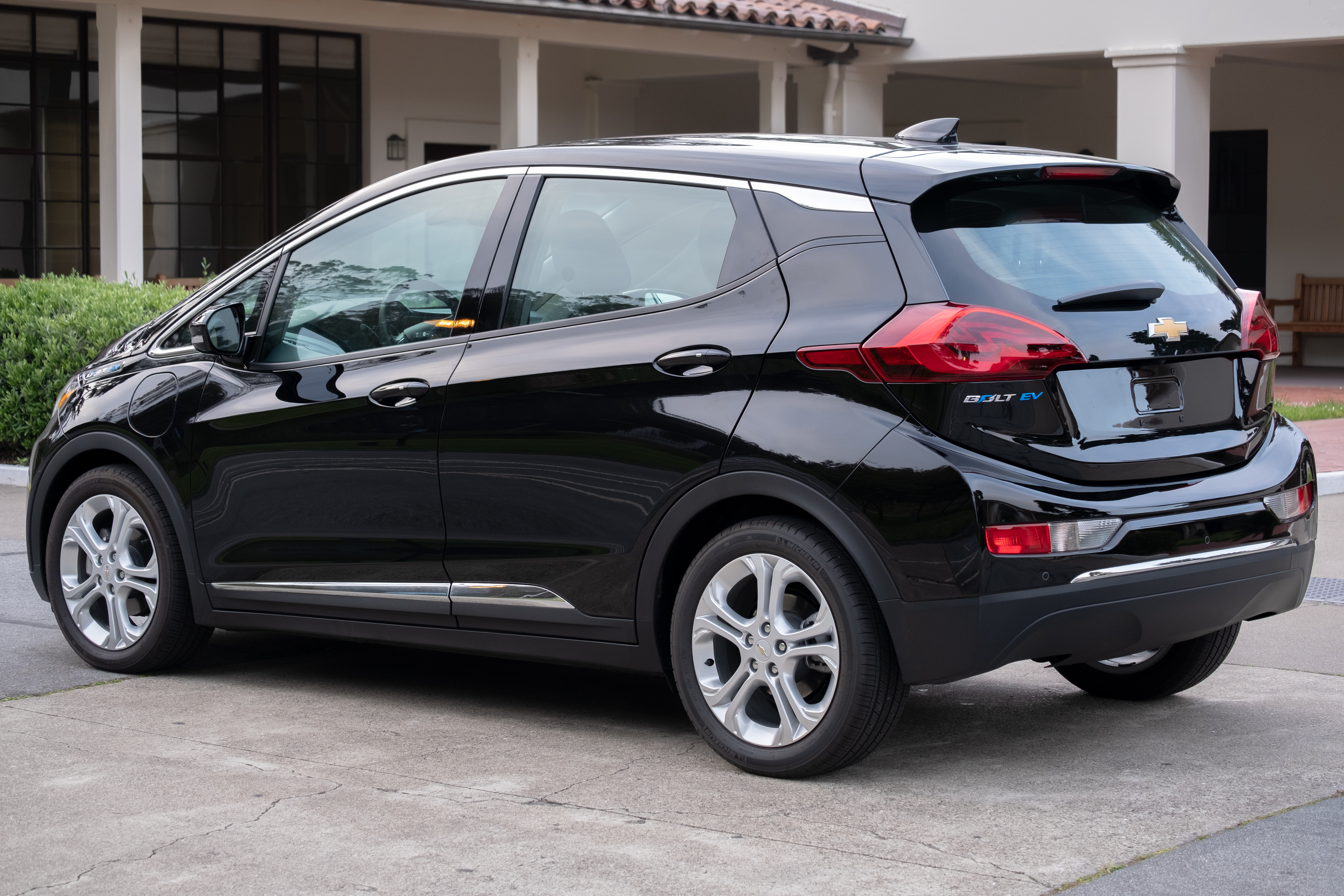 2019 Chevrolet Bolt EV taken in San Francisco in April 2019